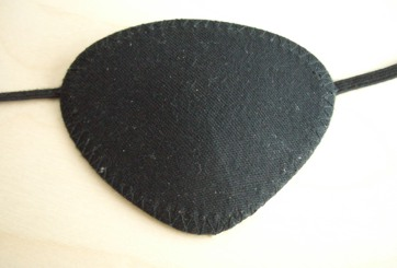 eyepatch